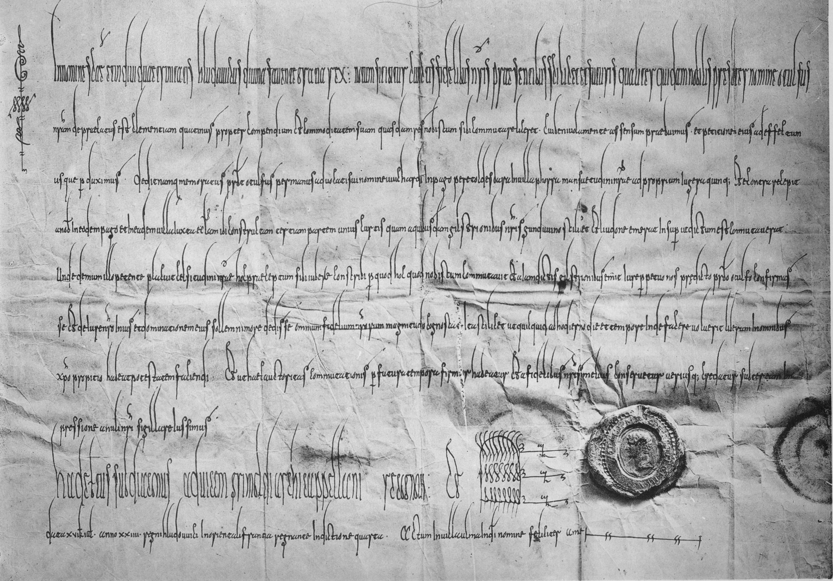 A charter of king Louis the German for the abbey of Saint Gall. St. Gallen, Stiftsarchiv, Urkunden FF.1.H.106.